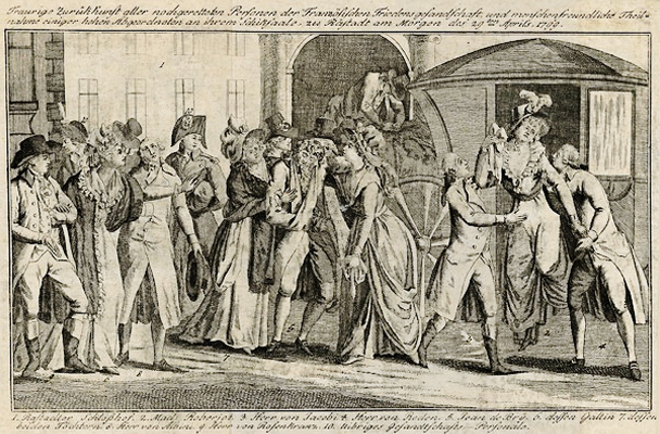 Return of the survivors of the assassination of the French plenipotentiaries in Rastatt